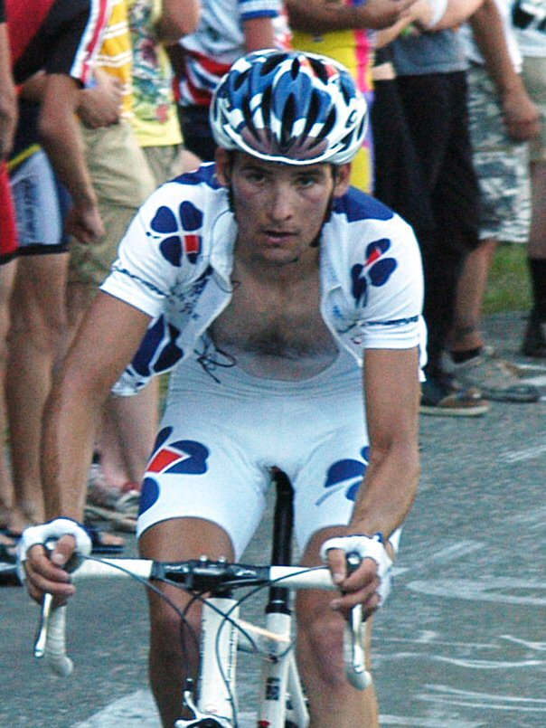 Benoît Vaugrenard at stage 7 of the Tour de France 2007 on the Col de la Colombière.